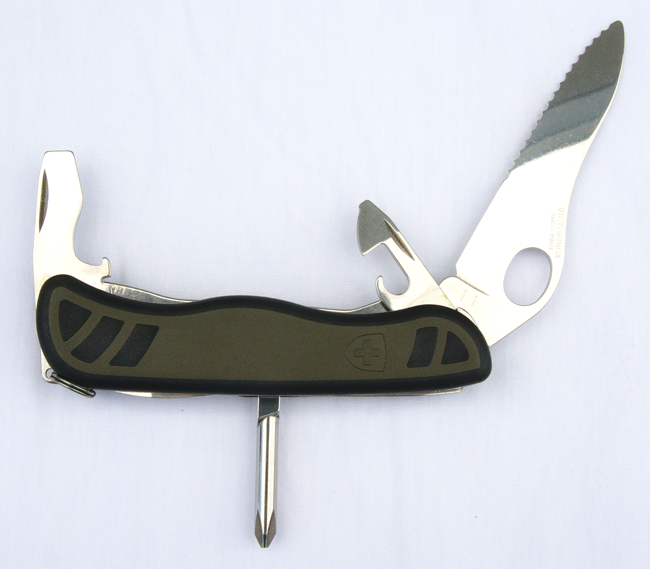 Victorinox Swiss Army Knife - Model '08 Soldier Knife